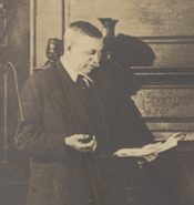 Former United States Representative from New York John D. Clarke.